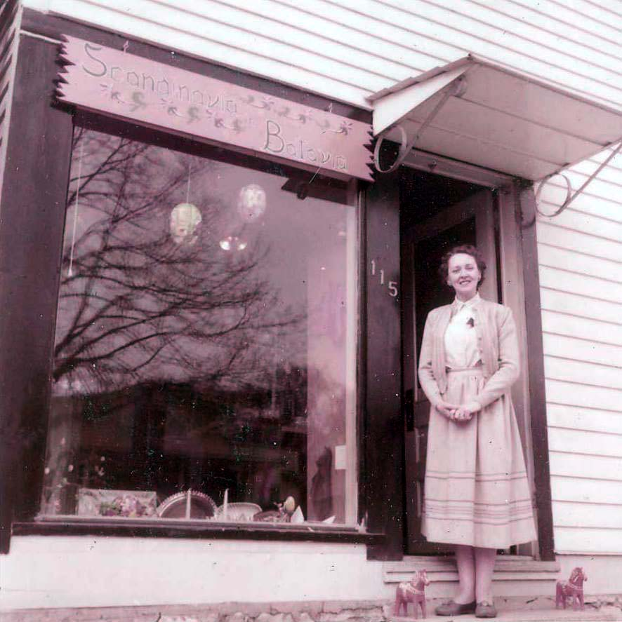 Birgit Ridderstedt at her gift shop "Scandinavia in Batavia", as released by FamSACPlace: 115 E. Wilson Street, Batavia, IL